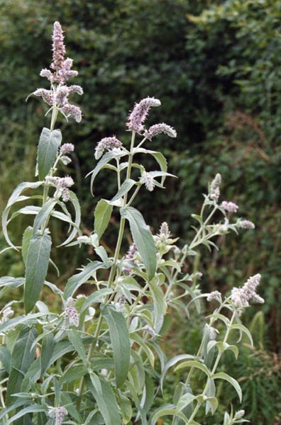 Mentha longifolia